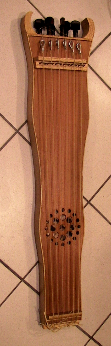 Ttun-ttun (Basque country).